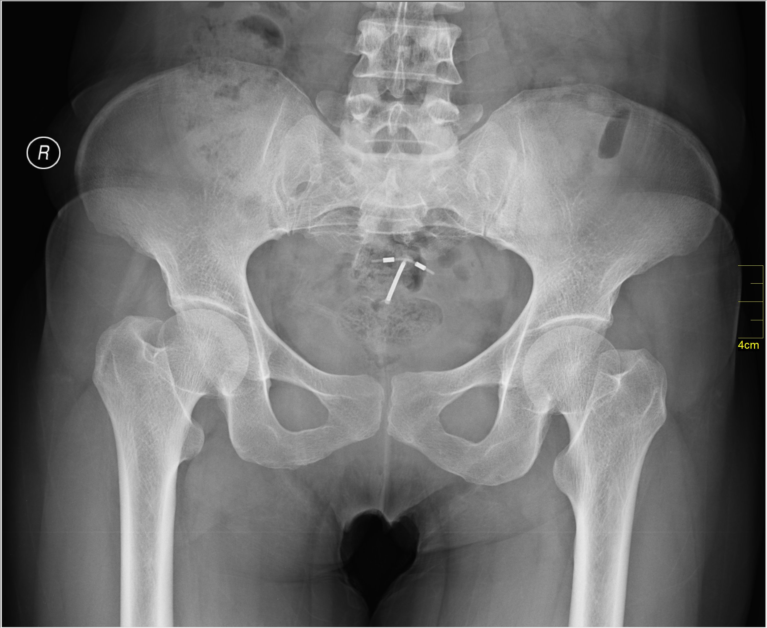 Roentgenogram or Medical X-ray image. May not be to scale.